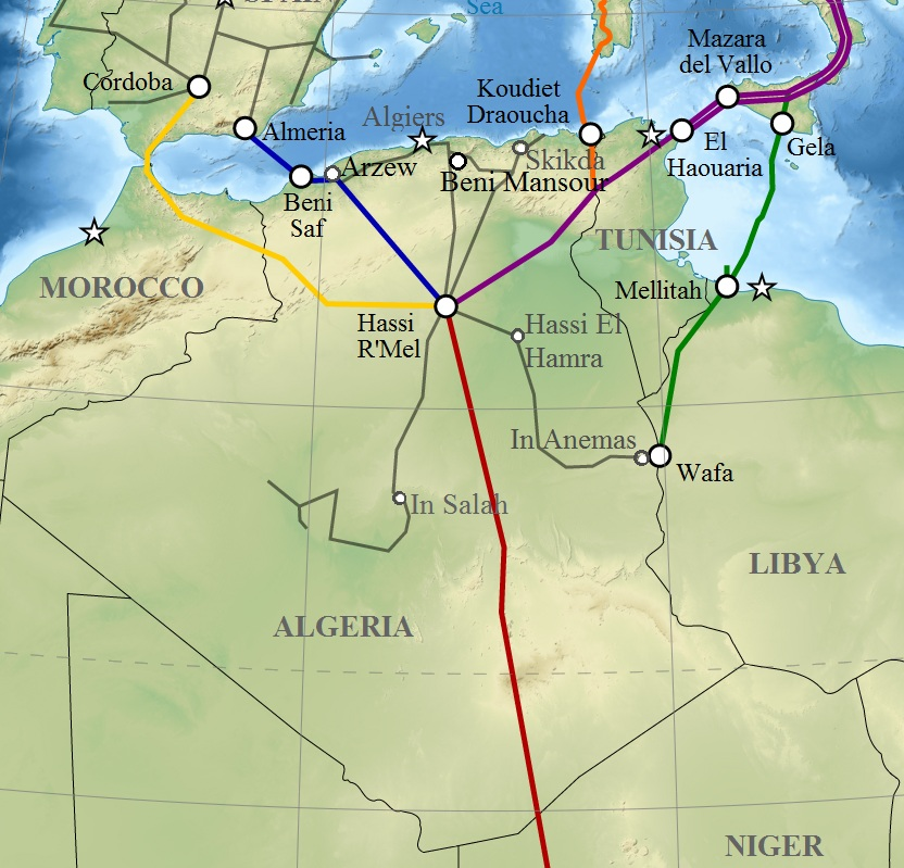 Map of gas pipelines across Mediterranee and Sahara : Trans-Saharan, Maghreb–Europe, Medgaz, Galsi, Trans-Mediterranean and Greenstream.